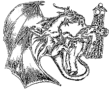 The BGF symbol